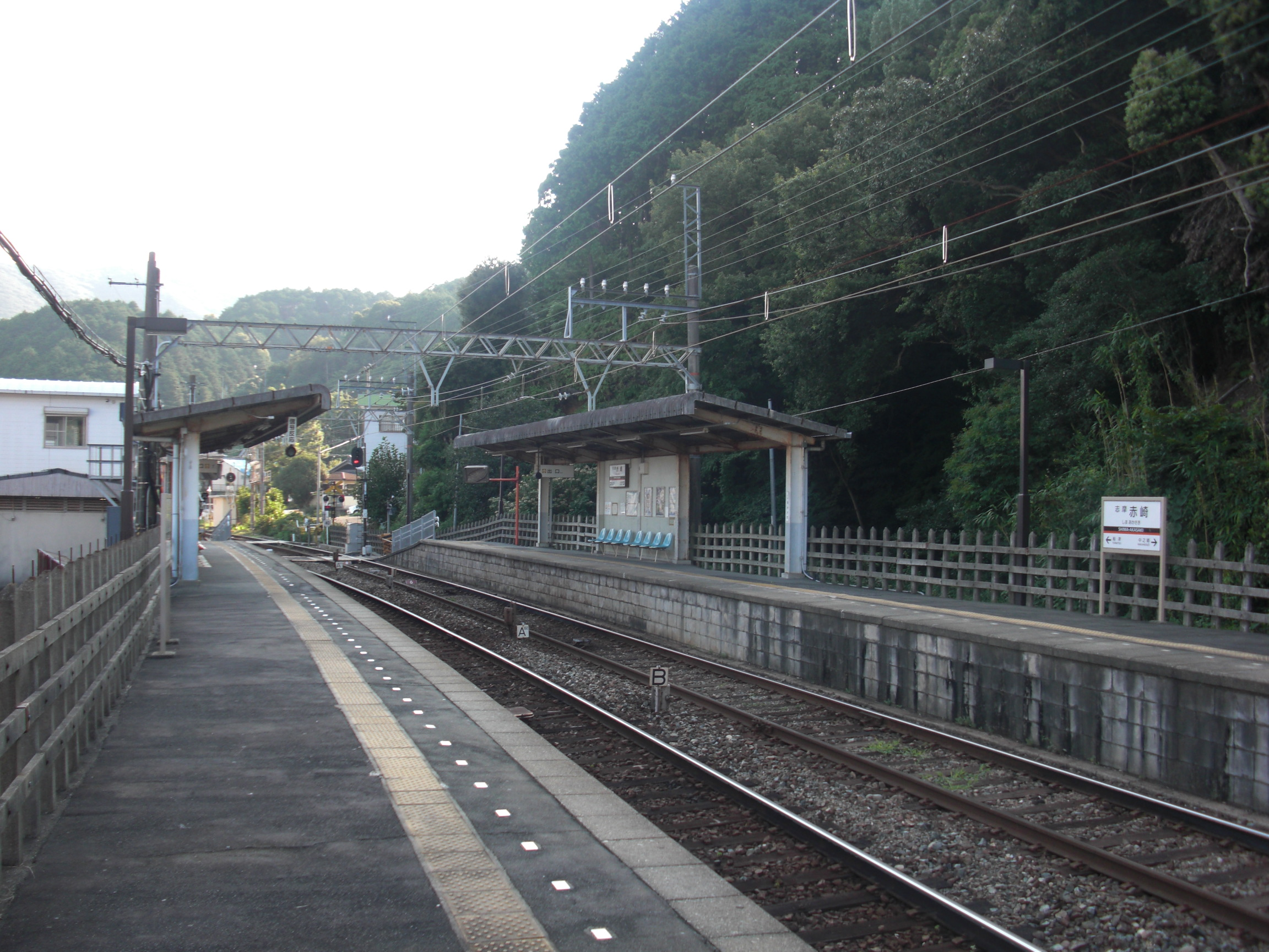 This is the Shima-Akasaki station's platform, which belong to Kintetsu Shima Line.